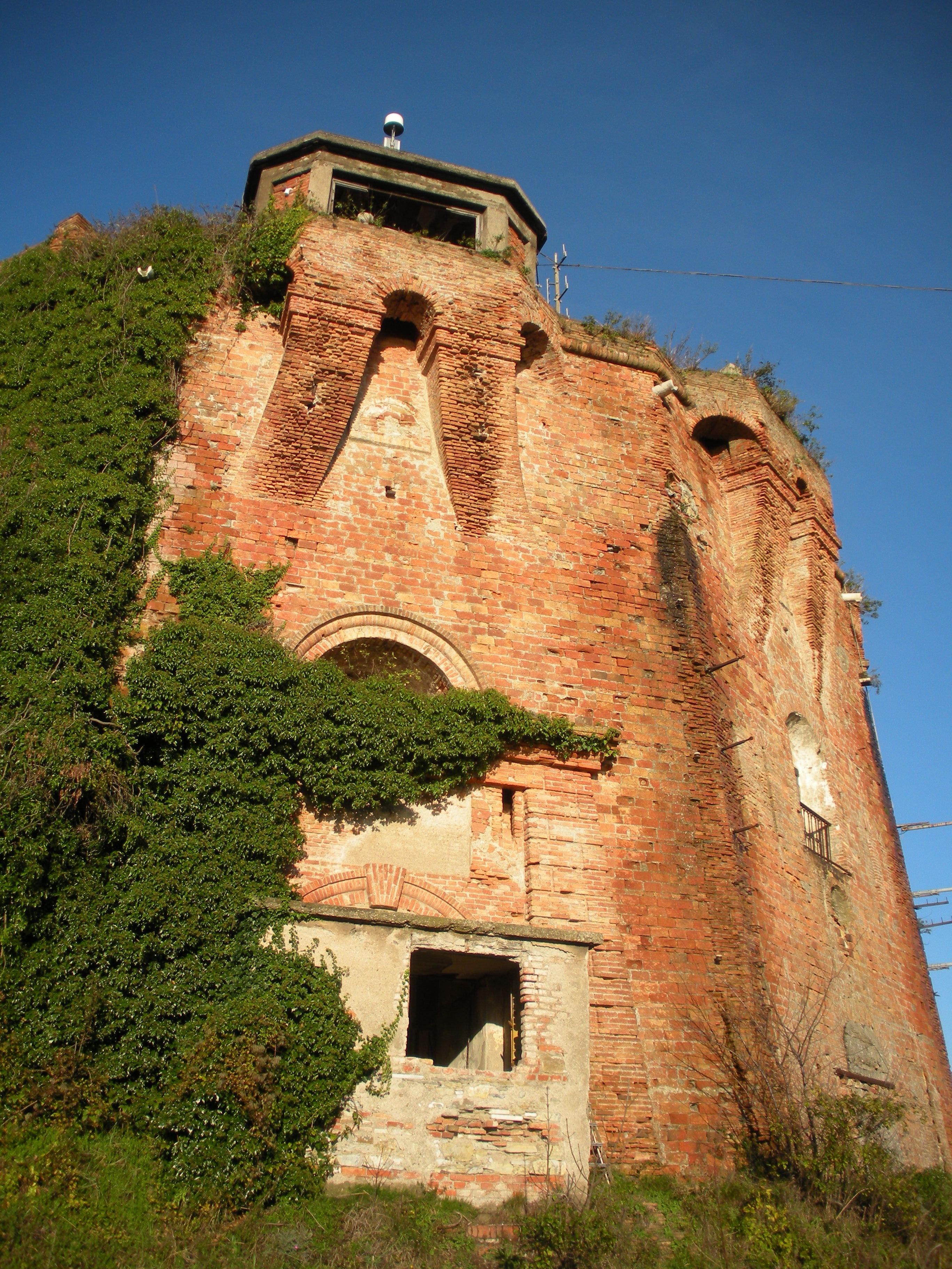 Genoa (Italy), front view of Tower Specola, inside Fort Castellaccio